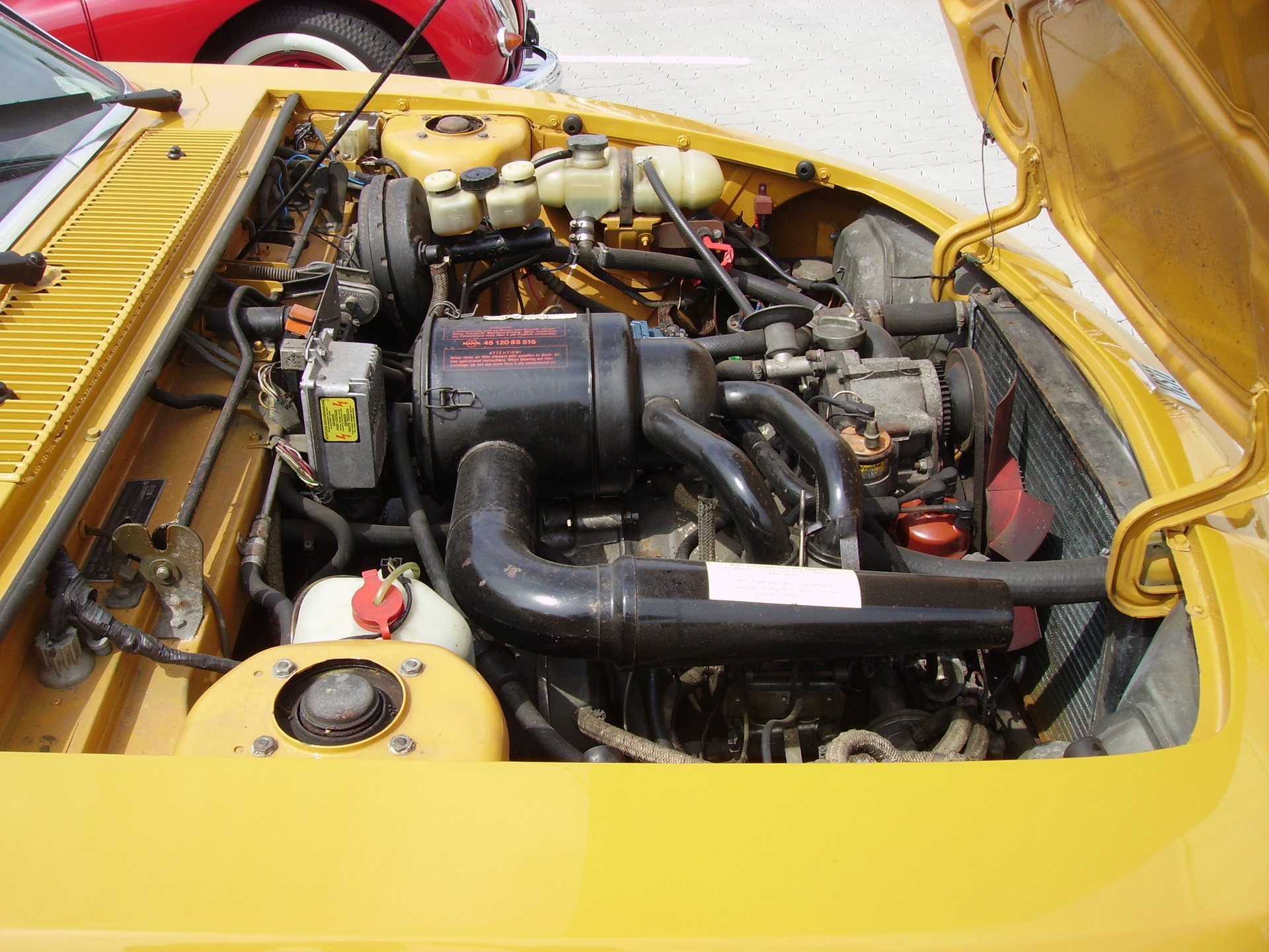 The Wankel engine of a NSU Ro 80